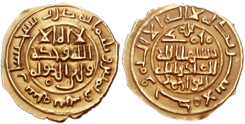 Coin of Khalaf ibn Ahmad, the last Emir of the Saffarid dynasty